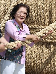 Mikiko Shiroma, the 32nd mayor of the Naha City, Okinawa, Japan.